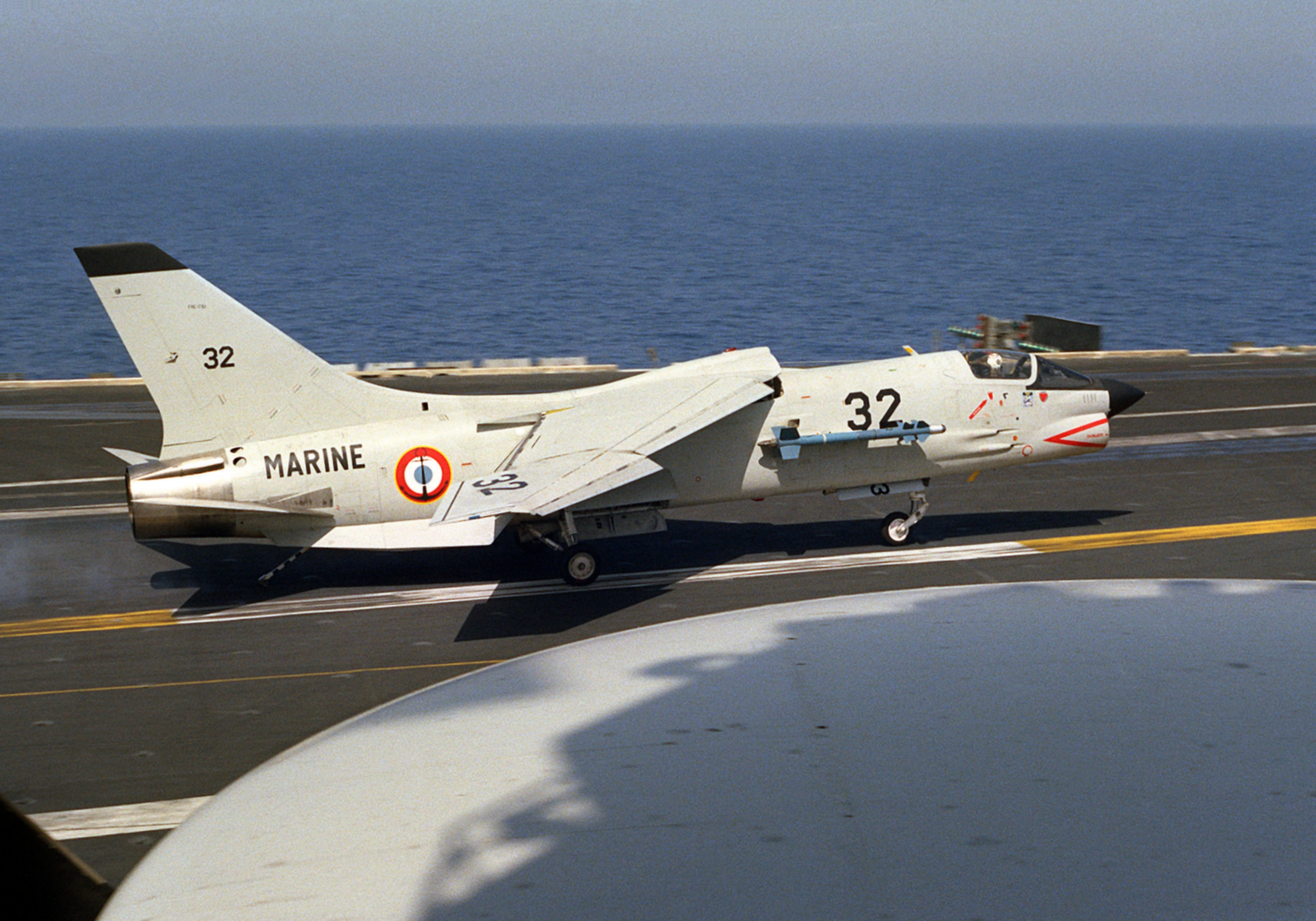 A French Marine Nationale Vought F-8E(FN) Crusader aircraft takes off again from the U.S. Navy aircraft carrier USS Dwight D. Eisenhower (CVN-69) after overshooting the arresting cable during flight operations in 1983.